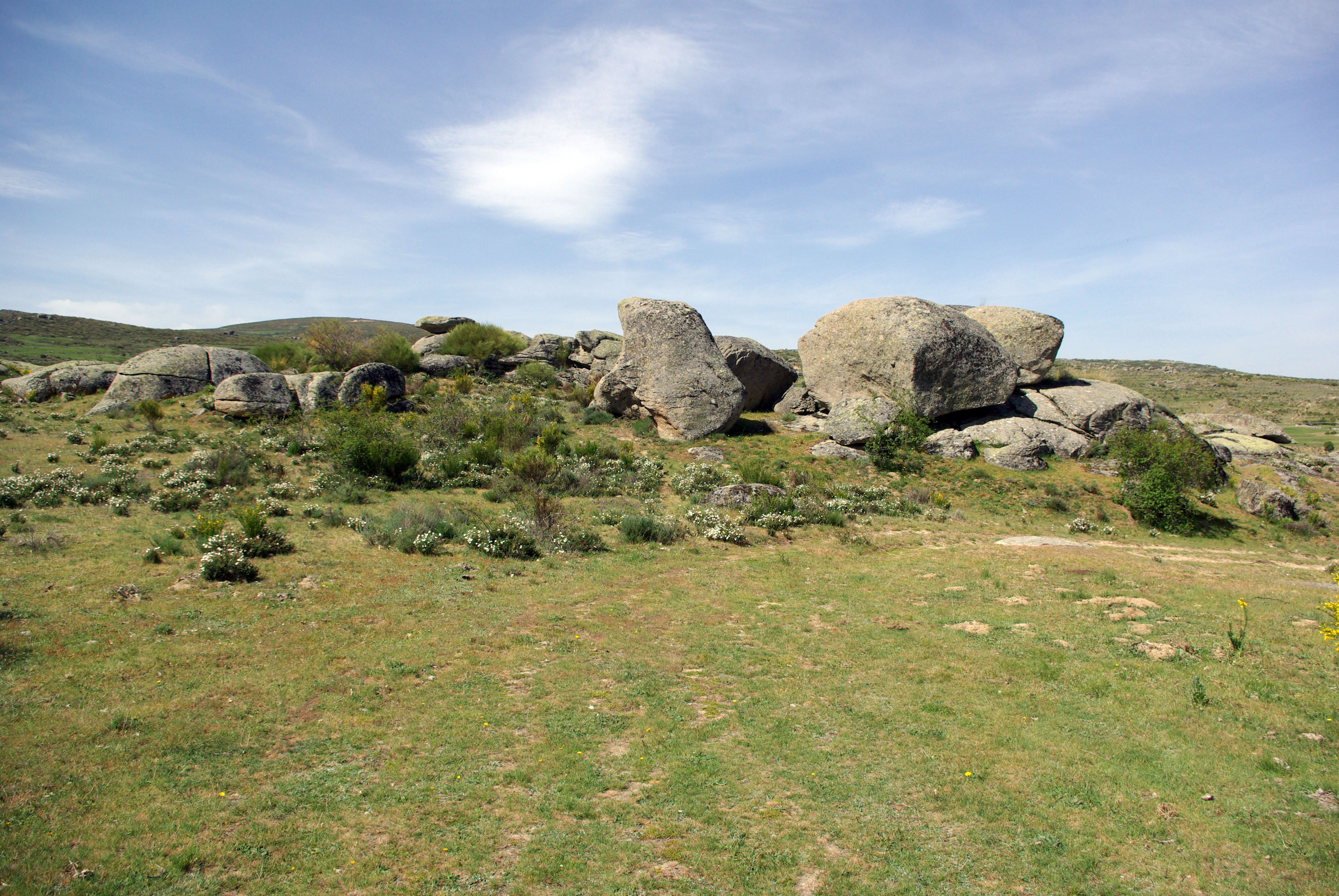 General view of Zone 1 of necropolis of La Coba, near San Juan del Olmo, Province of Ávila (Spain)